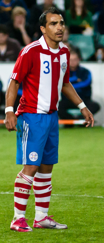 Claudio Rodriguez playing for the Paraguay national football team in a friendly match against Australia at the Sydney Football Stadium.